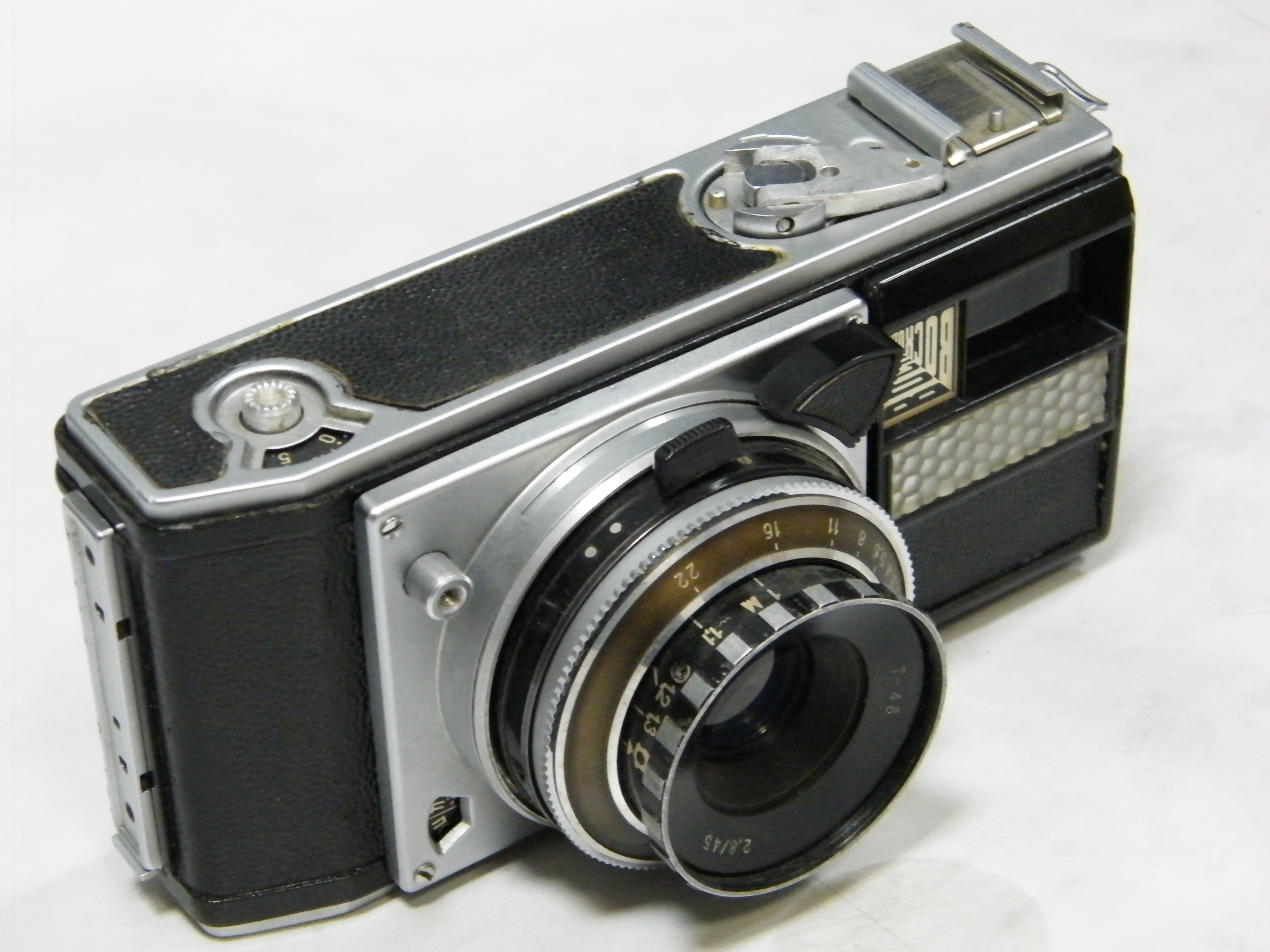 Voskhod LOMO camera from Evgeniy Okolov collection